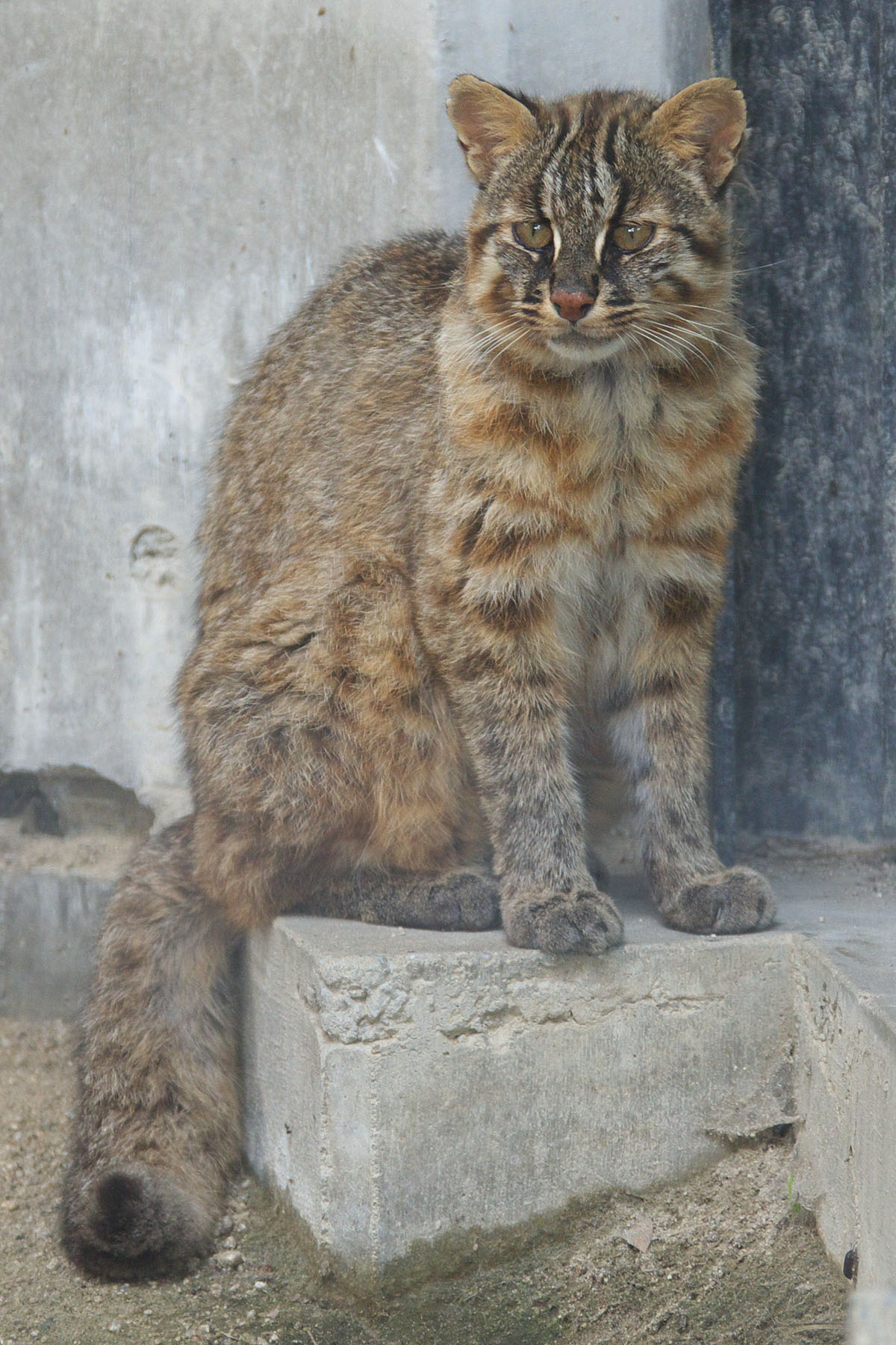 Tsushima Cat (one kind of Leopard cat) bred at Fukuoka zoo, Japan.